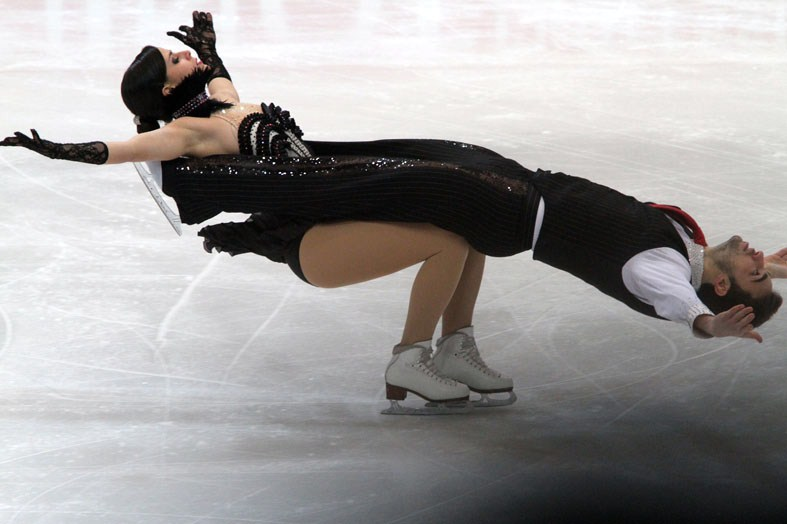 Sara Hurtado and Adrià Díaz at the 2011 European Figure Skating Championships